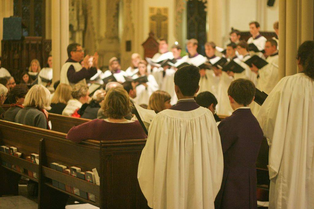 Canon Lawrence Tremsky (Director of Music) conducting the Cathedral Choirs in formal garb.